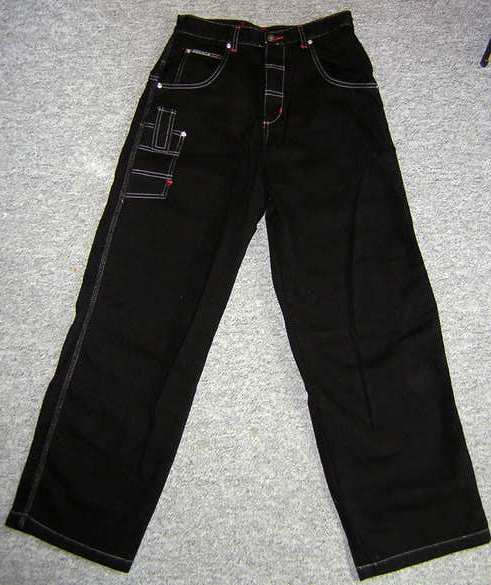 Home made picture of the front of an Overzeas longpocket jeans.